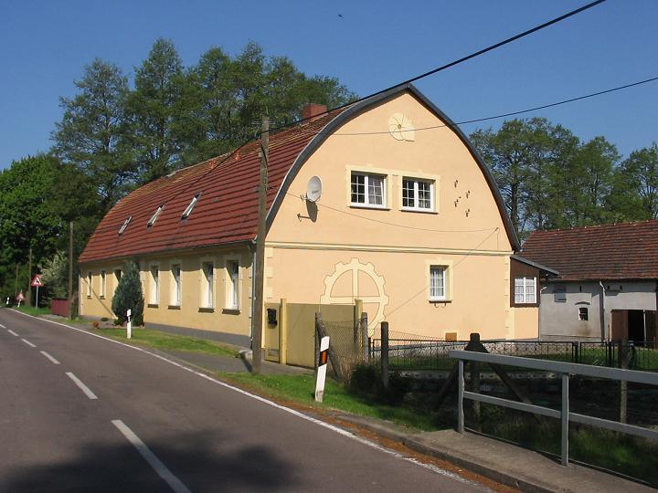 Former watermill at Hammerfließ in Scharfenbrück, a village (part) of the municipality Nuthe-Urstromtal in Brandenburg, Germany. The Hammerfließ is a small stream, which dewaters especially the Flemminwiesen in the Baruther-Urstromtal over the rivers Nuthe and Havel to Elbe.